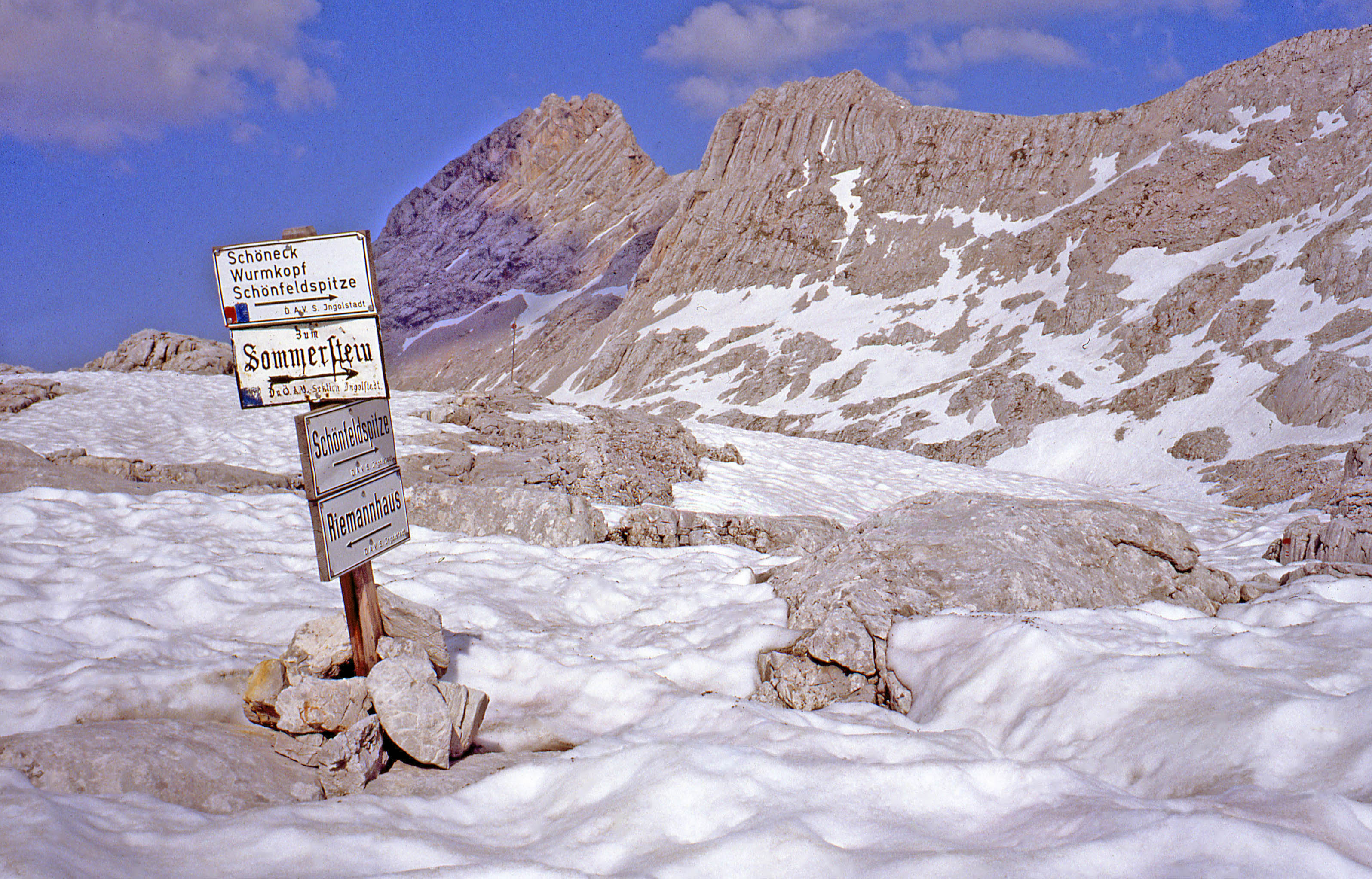 Ways crossing at Steinernes Meer